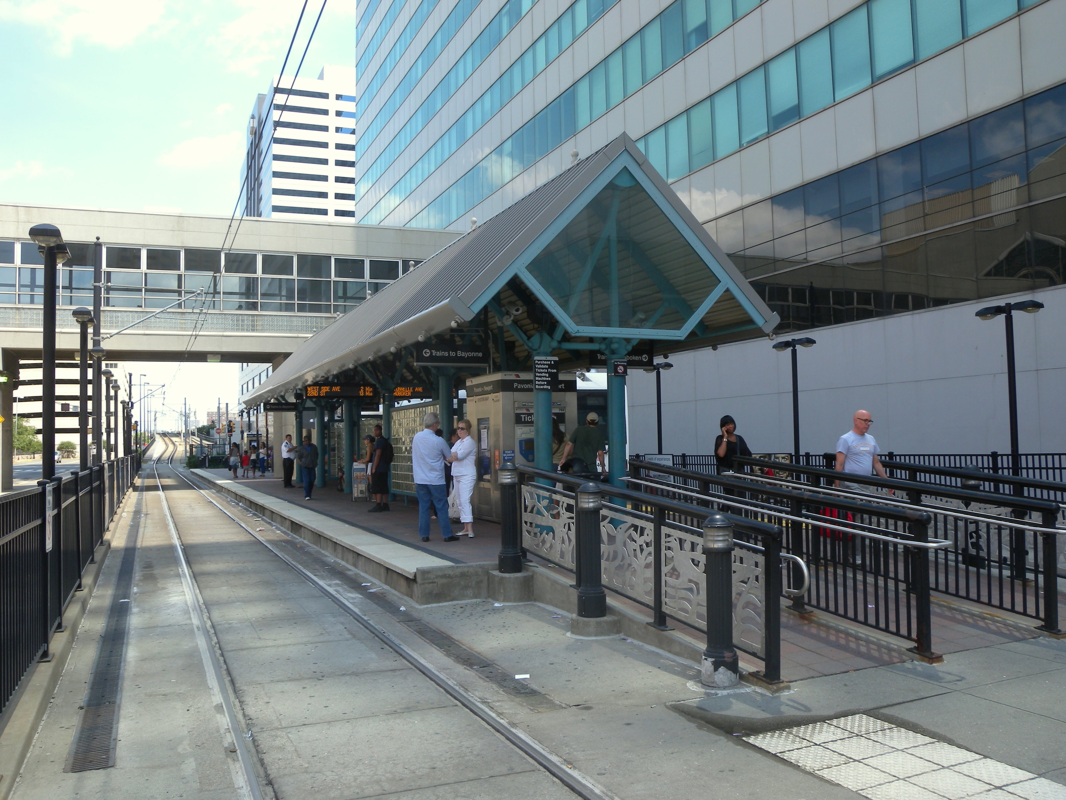 Looking north at Newport station on a sunny late morning.